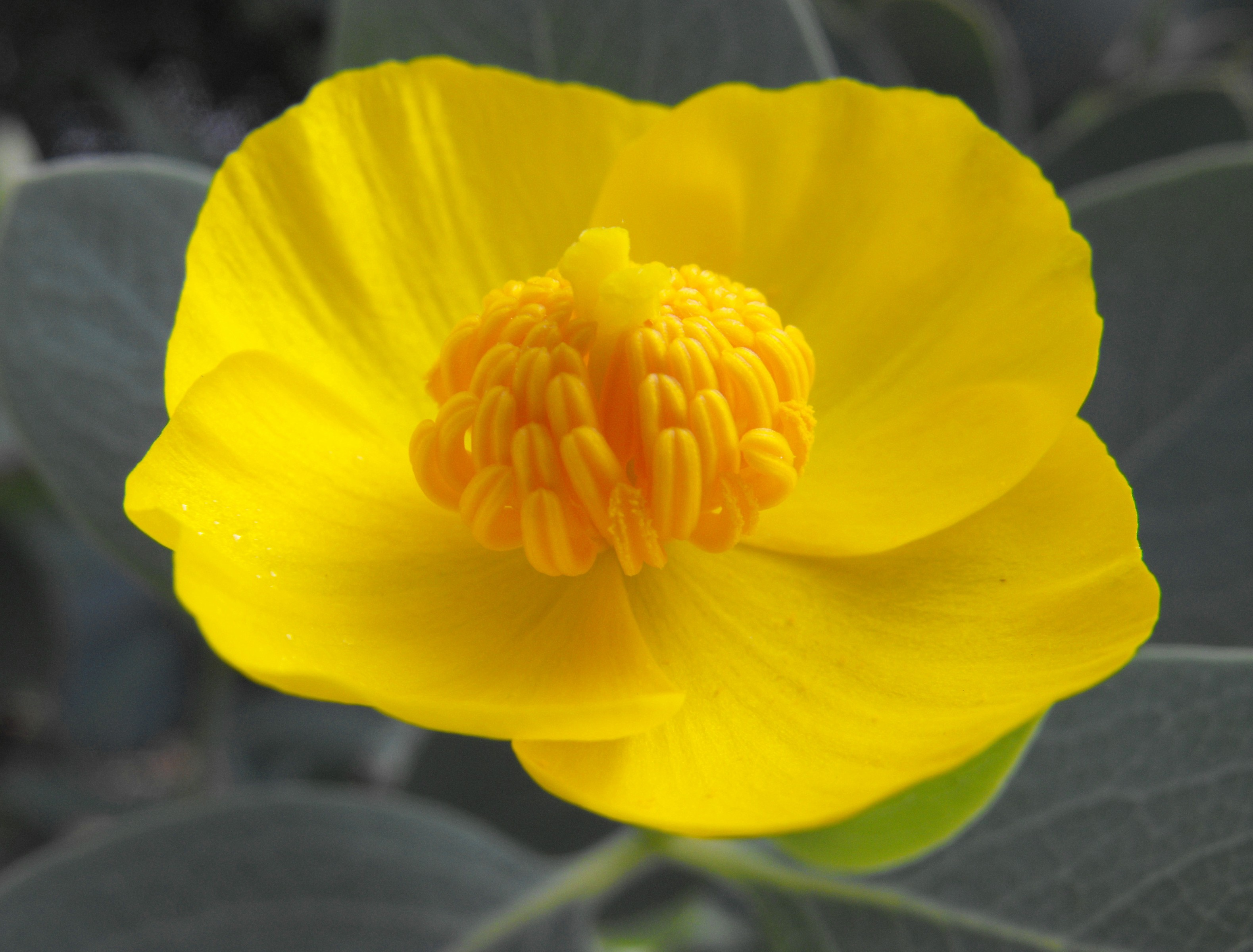 Dendromecon harfordii (Channel Island Tree Poppy; Papaveraceae), cultivated in the Rancho Santa Ana Botanic Garden in Claremont, California, where identified by sign.